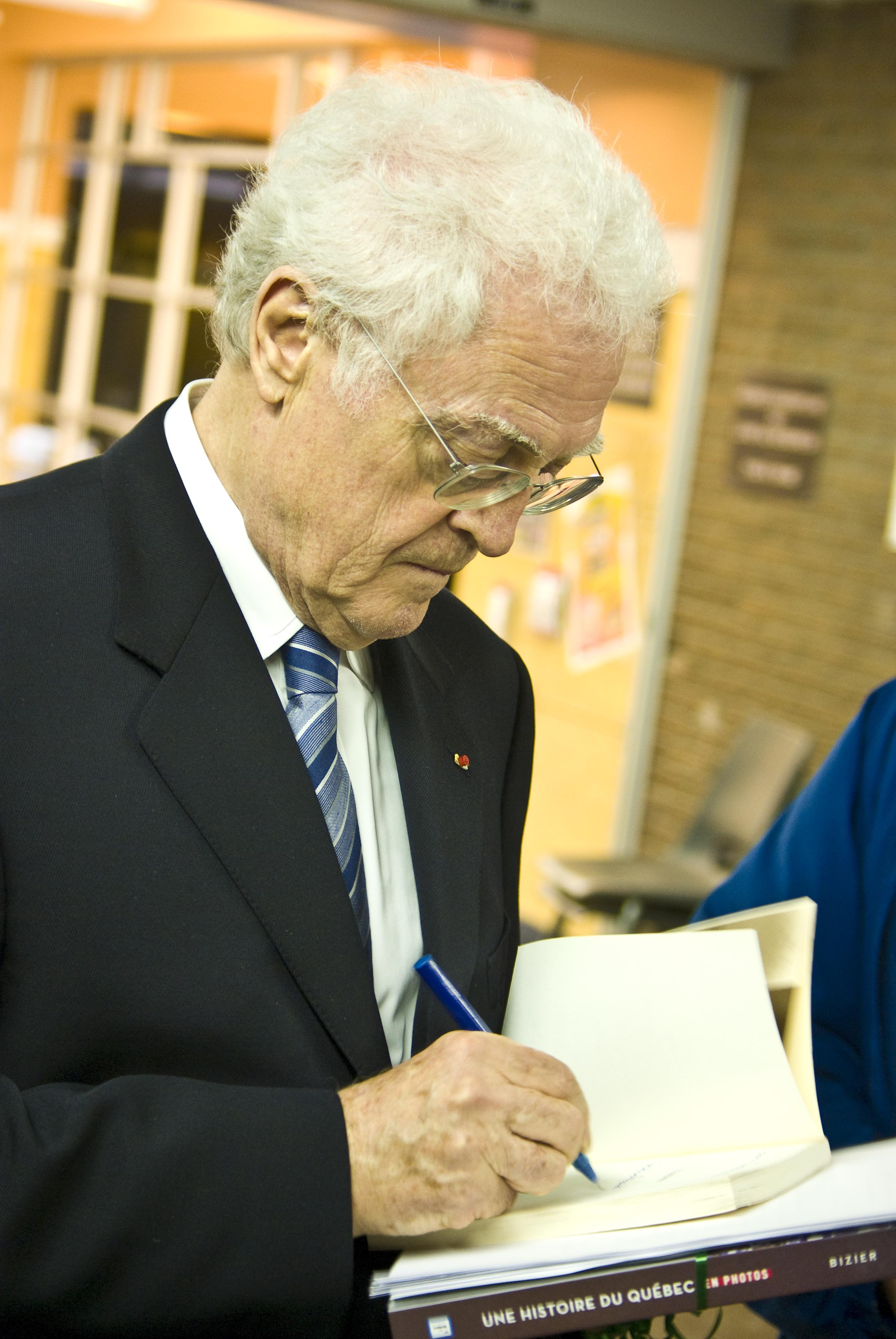 Lionel Jospin at Université de Montréal